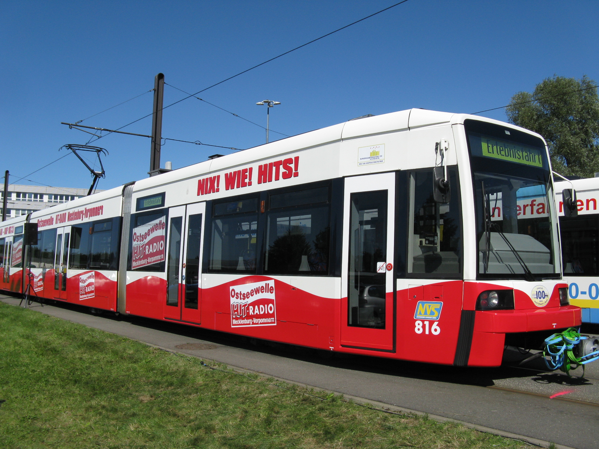 Public transport Schwerin, Depot Haselholz, Schwerin, Germanytram mit Ostseewelle advertising